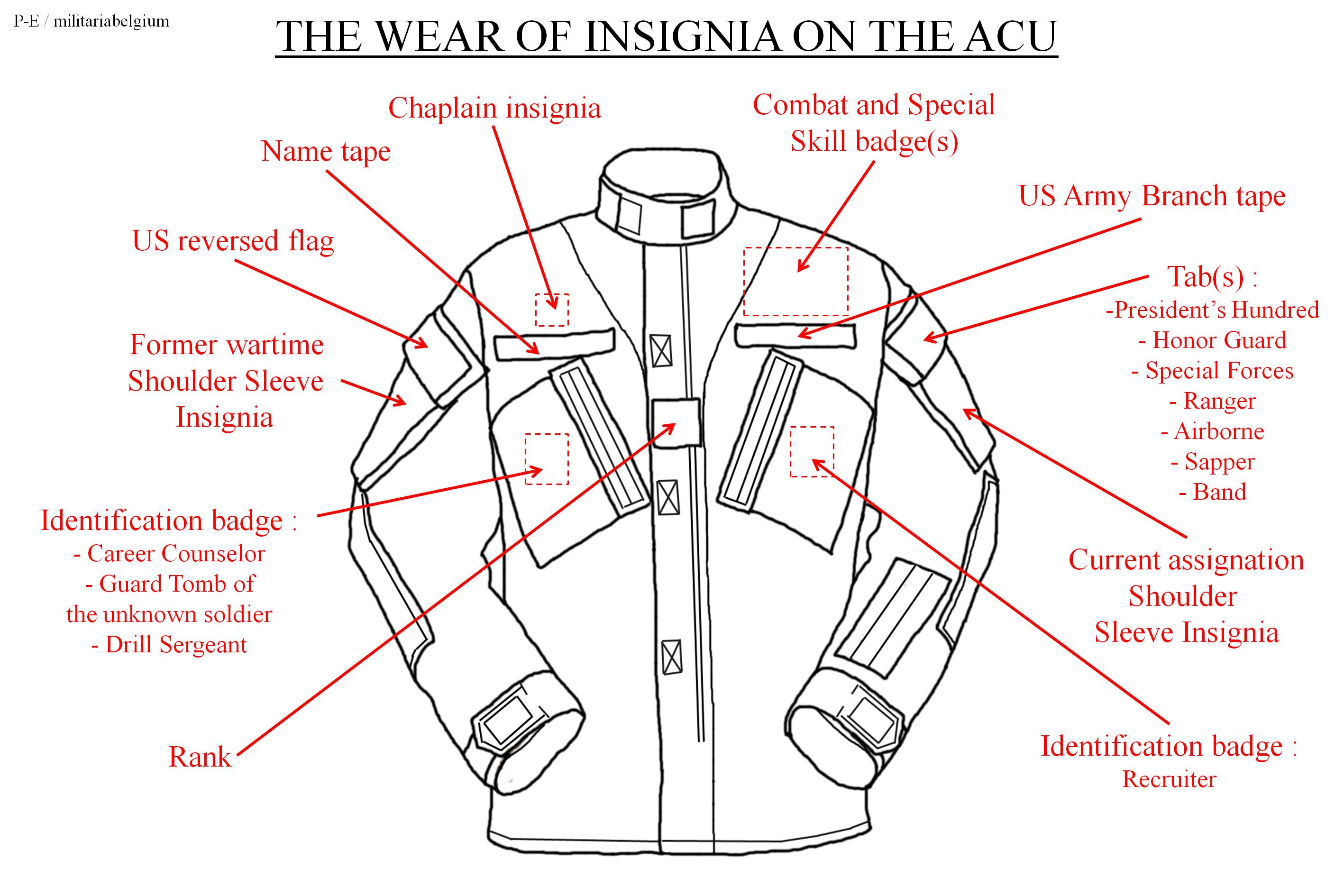 This schema I made shows the position of the insignia (pinned or sewn) on the Advanced Combat Uniform (ACU) of the US Army.